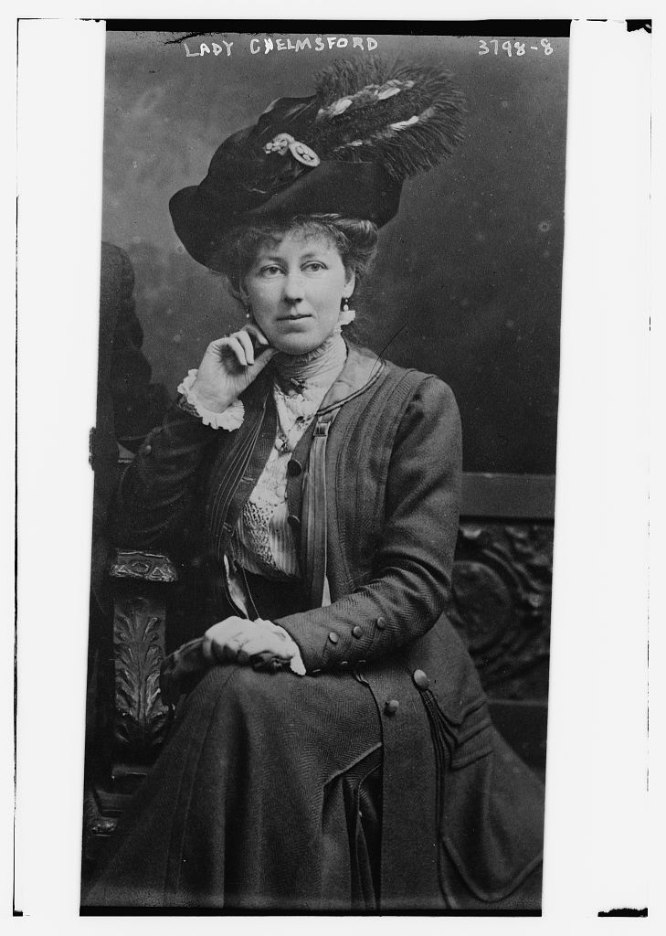 Frances Charlotte Guest, Viscountess Chelmsford circa 1915